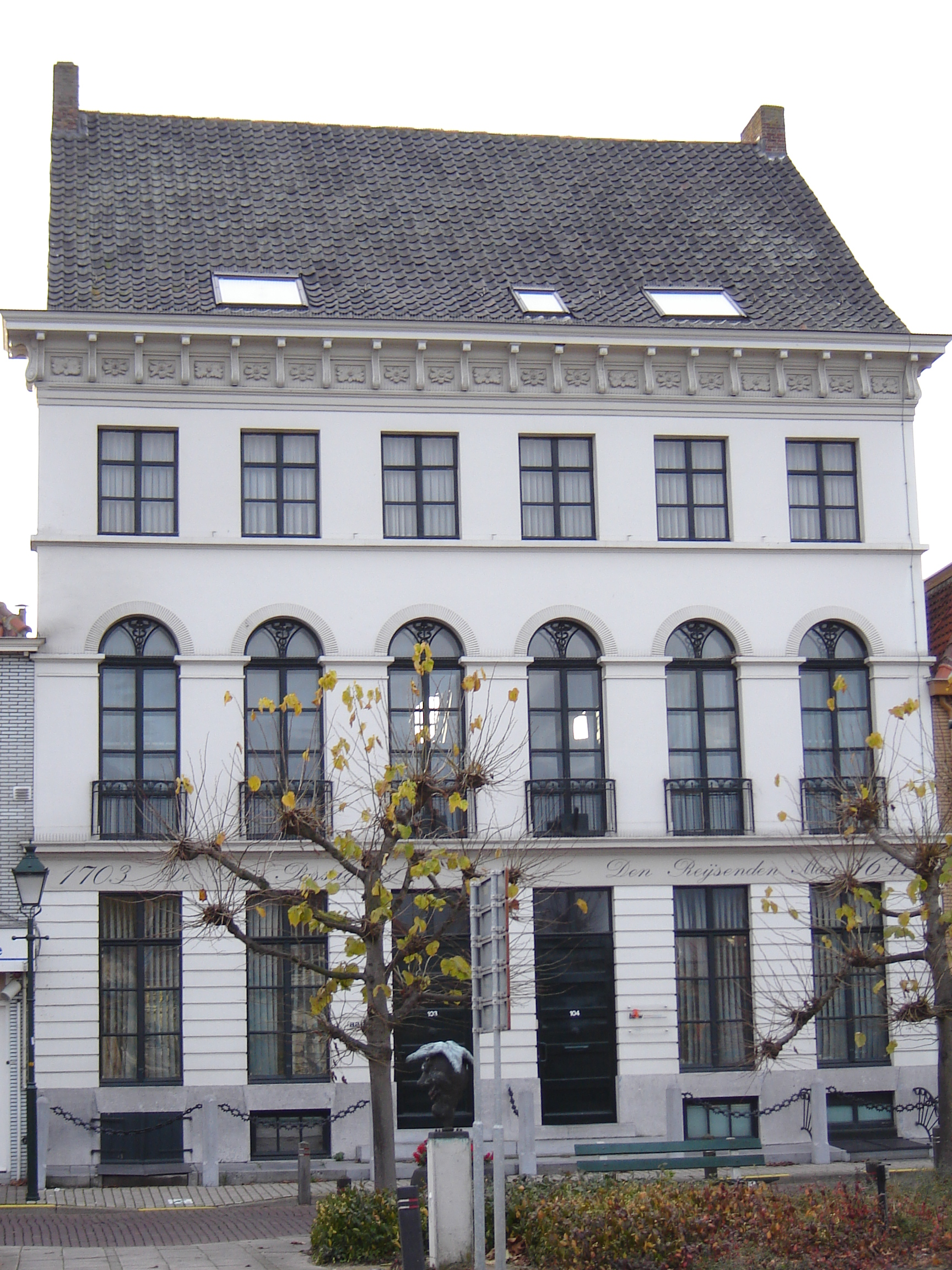 Old convent on the Westkade in Sas van Gent. Sas van Gent, Terneuzen, Zeeland, the Netherlands